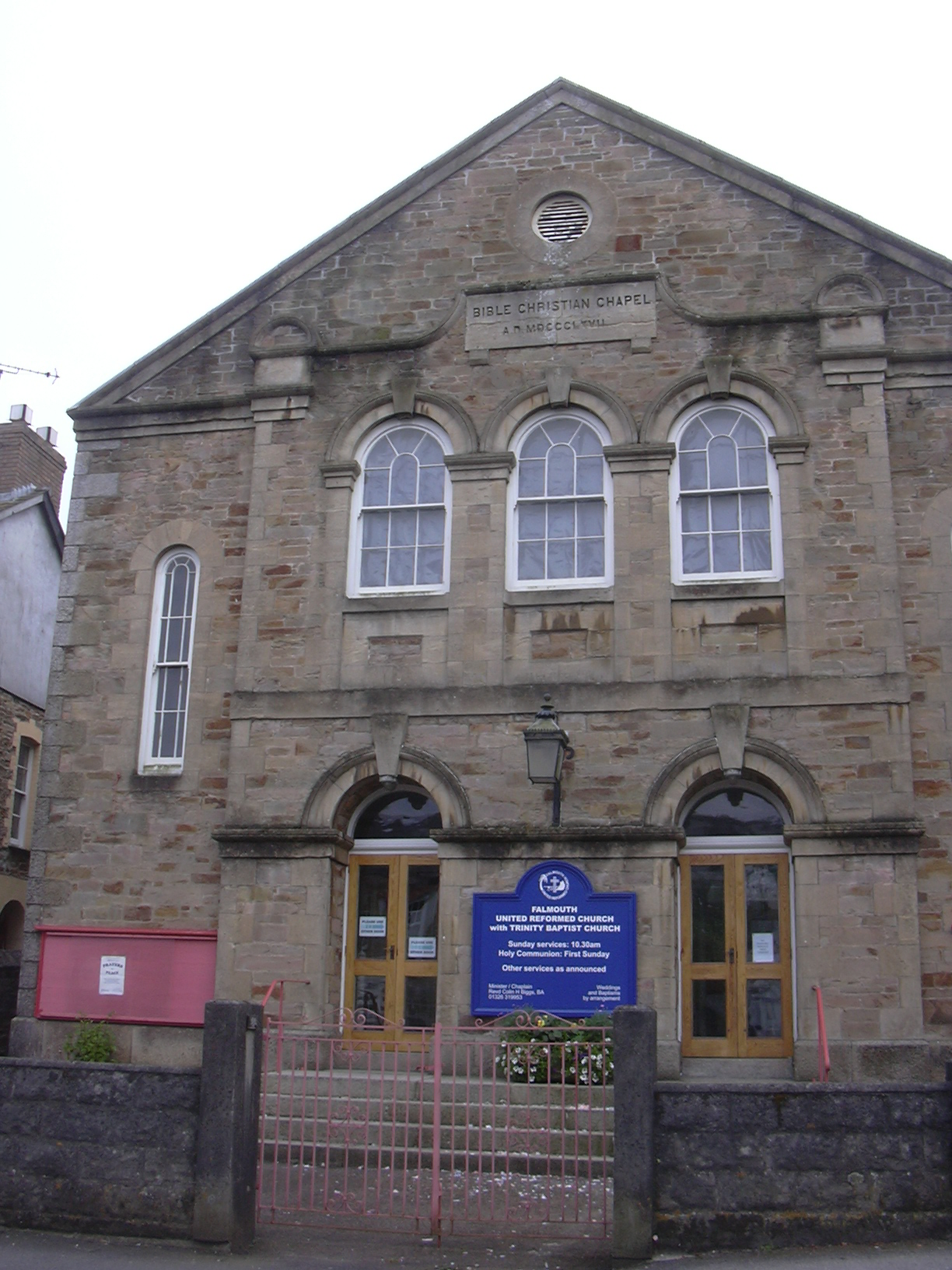 Old Bible Christian Chapel, Falmouth, now United Reformed Church with Trinity Baptist Church.